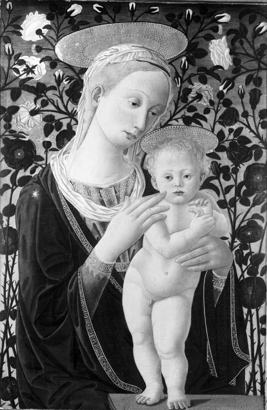 Mary with the Christ Child in front of a rose hedge, by Pier Francesco Fiorentino, ca. 1450. The painting was destroyed or disappeared in Berlin in May 1945, in the Friedrichshain flak tower fire. - Dimensions: 68 x 45 cm